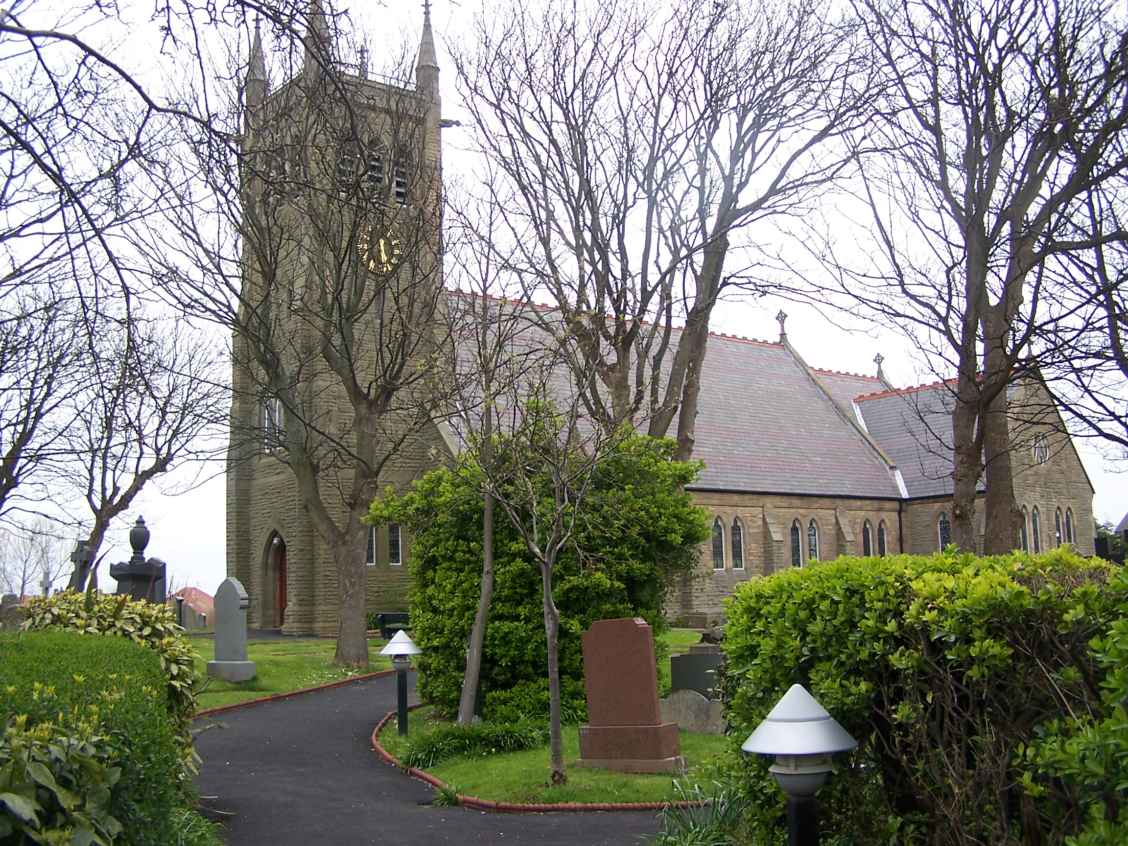 Bispham Parish Church, All Hallows. Photo taken by ♦Tangerines BFC ♦·Talk 01:10, 13 April 2007 (UTC) 11 on April, 2007